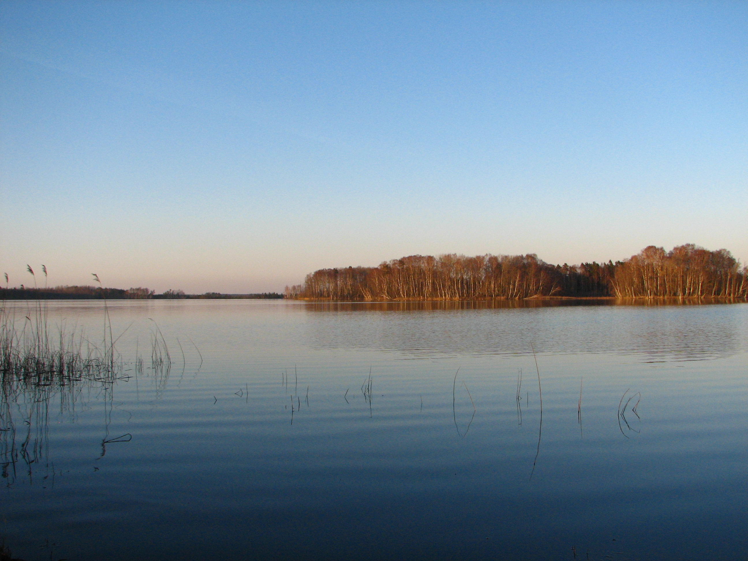 The lake Rösjön in Västergötland, Sweden, seen from the south. The lake is situated on the border between Norra Vånga parish (in Skåning hundred and Vara municipality) and Vilske-Kleva parish (in Vilske hundred and Falköping municipality).